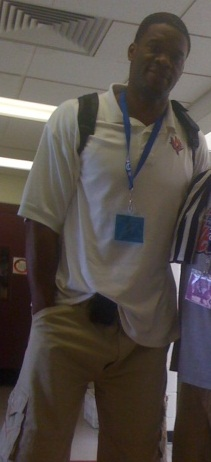 Davis was in Cincinnati coaching an AAU event for his daughter in July 2009.